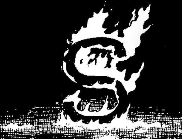 Logo of Spectacle Theater: a black capital S wreathed in white flames. Below the S is a hatched white ground.